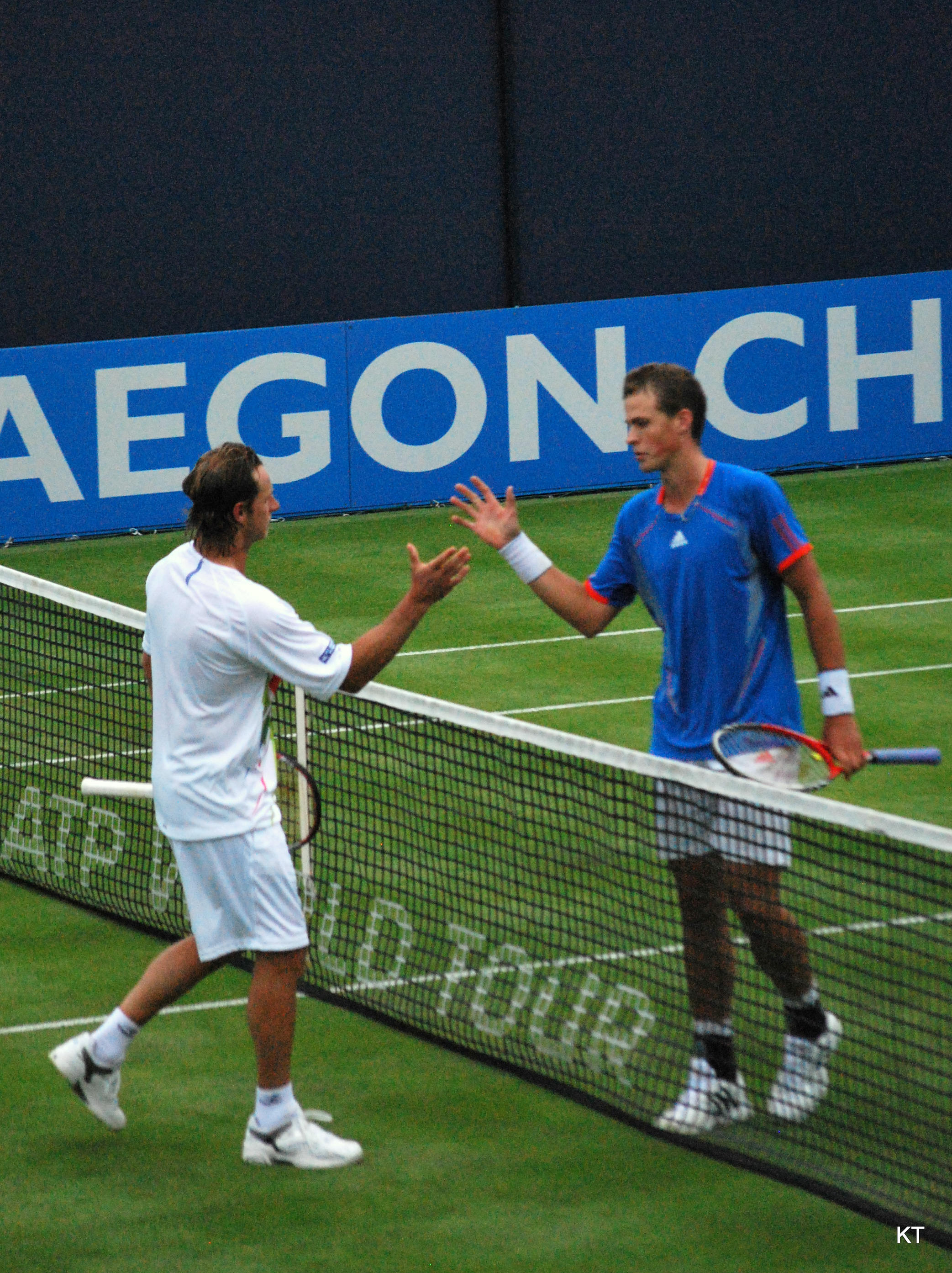 Nalbandian the winner shakes hands with Pospisil.